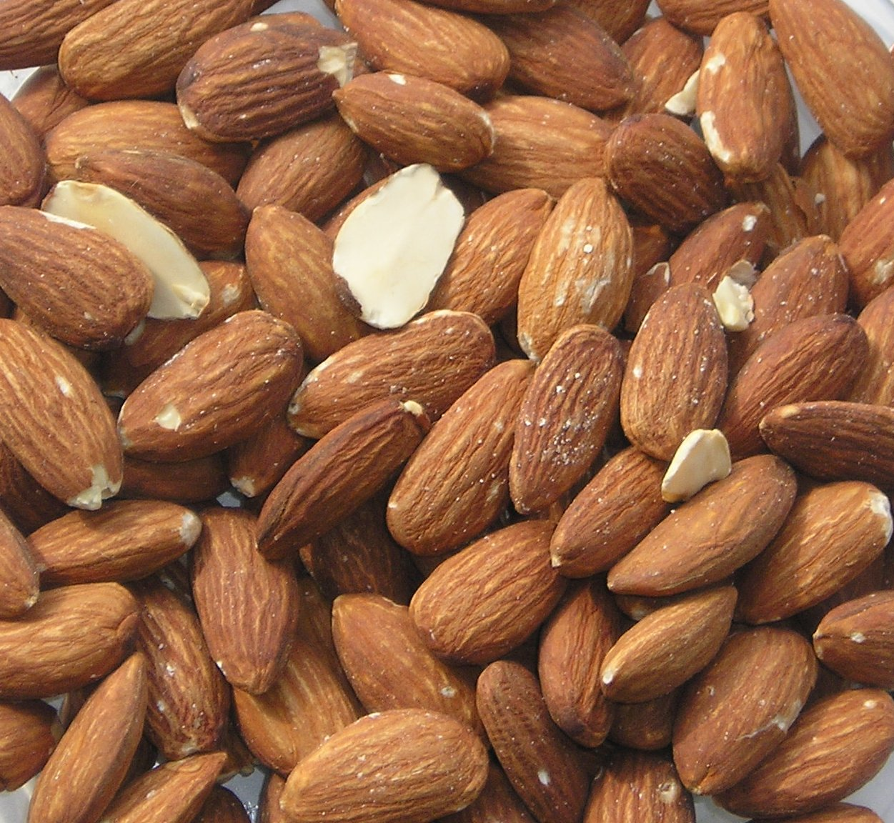 Plate with almonds